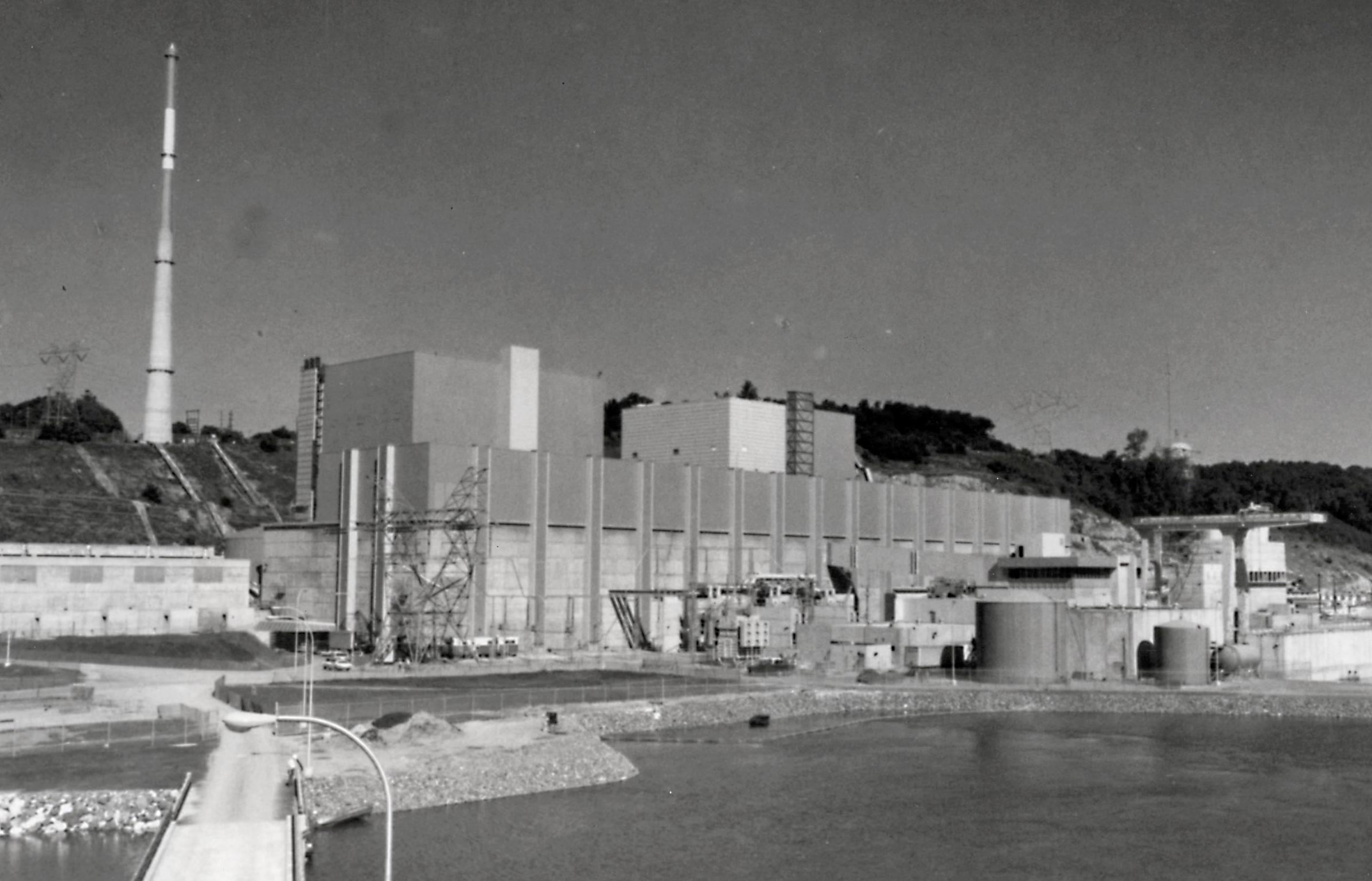 Cropped version of this photo allowing the main reactor buildings to be the central focus